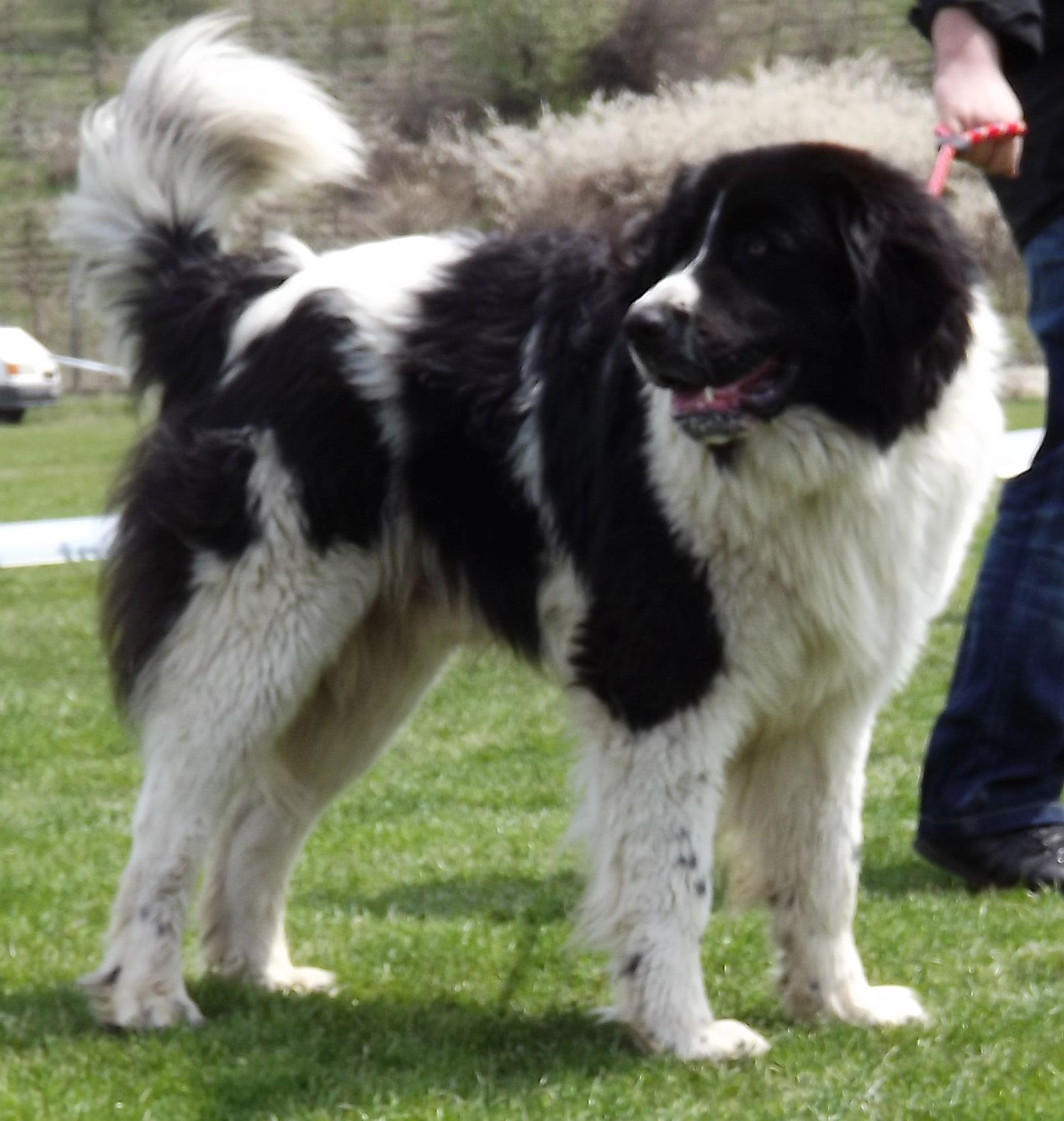 Bulgarian Shepherd bred by kennel Burigan, young male